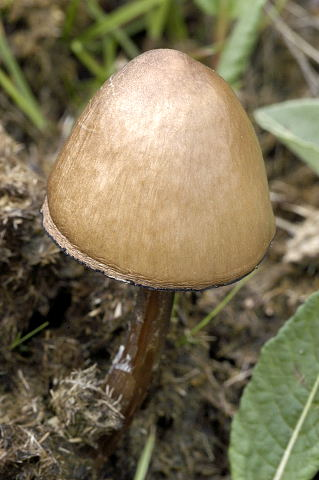 Panaeolus semiovatus from Commanster, Belgium. The determination of the species shown in this picture has been verified.